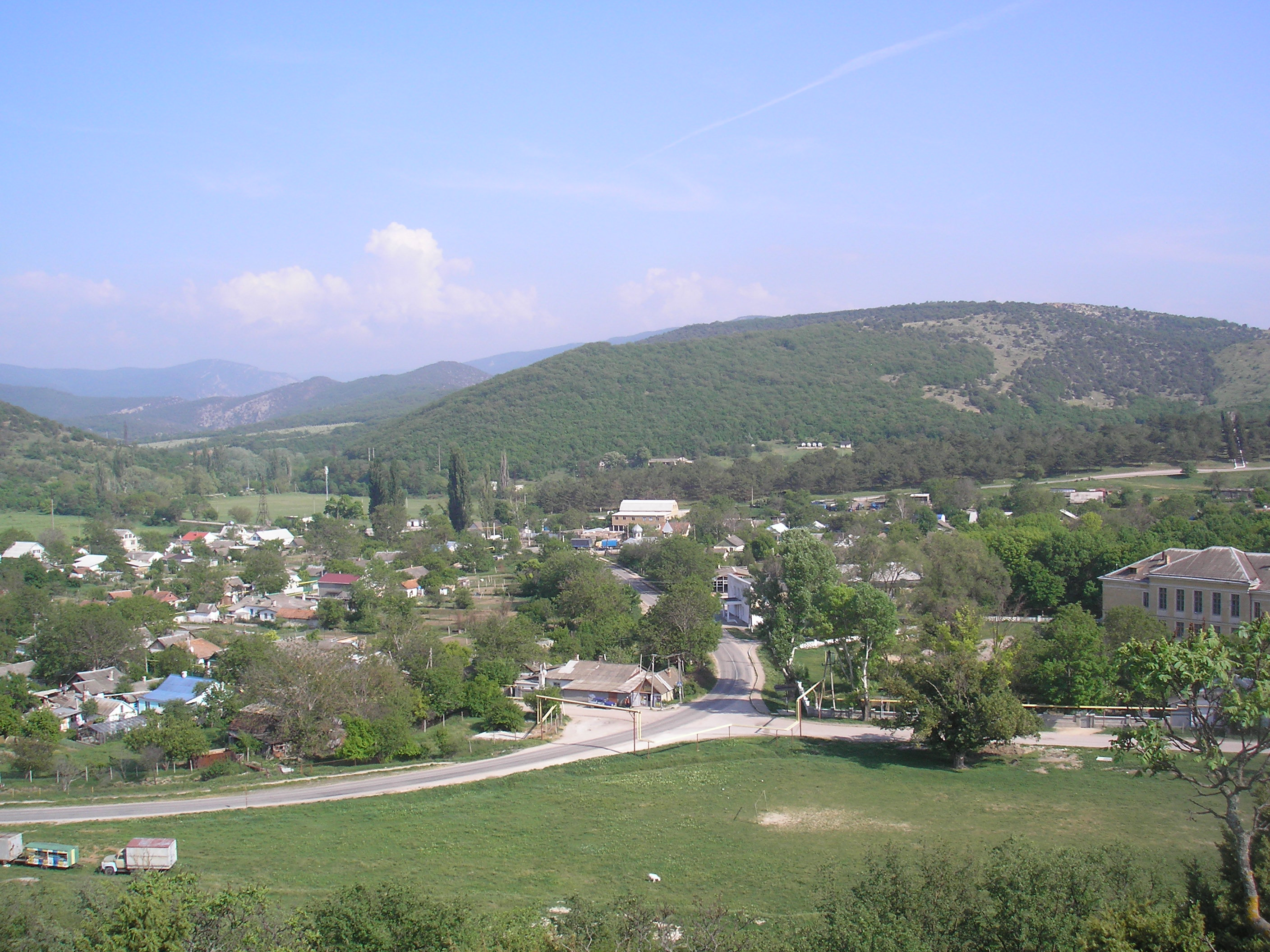 Village Khmelnytskoe, Sevastopol, Crimea